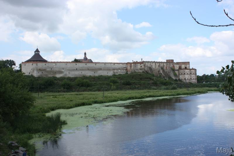 castle, Miedzybuz, Ukraine